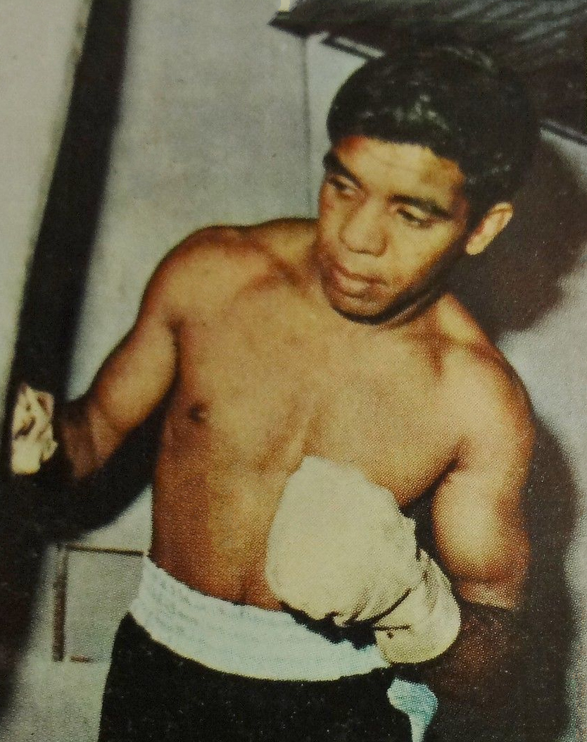 FIGURINA PANINI CAMPIONI DELLO SPORT BOXE N.324 ROSE 1968-69 REC